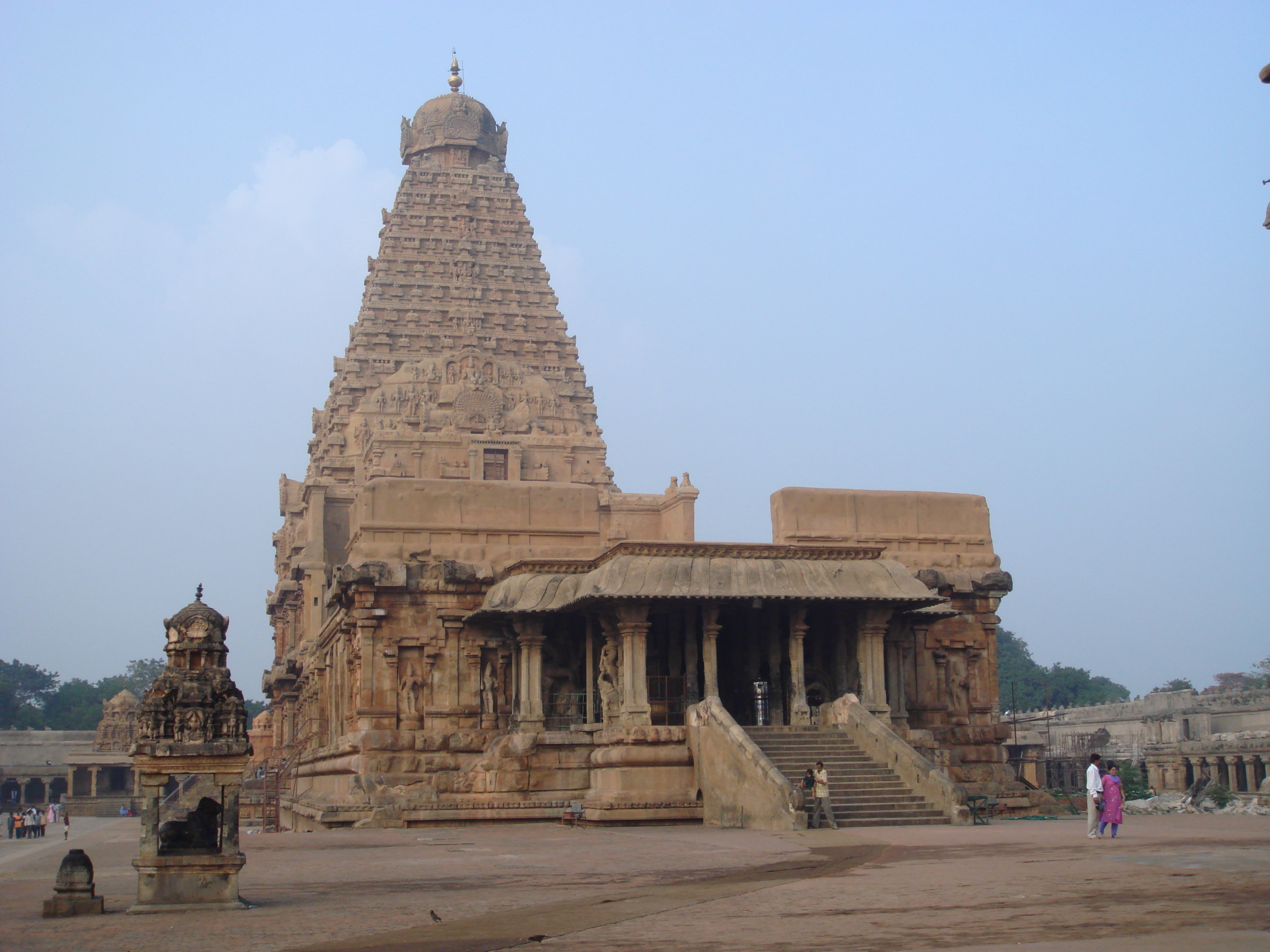 The Brihadishwara Temple's vimana in Thanjavur (Tamil Nadu, India).